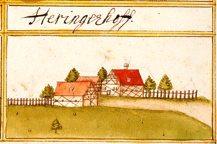 View of Häringen, Weilheim an der Teck, from the forest register books created by Andreas Kieser